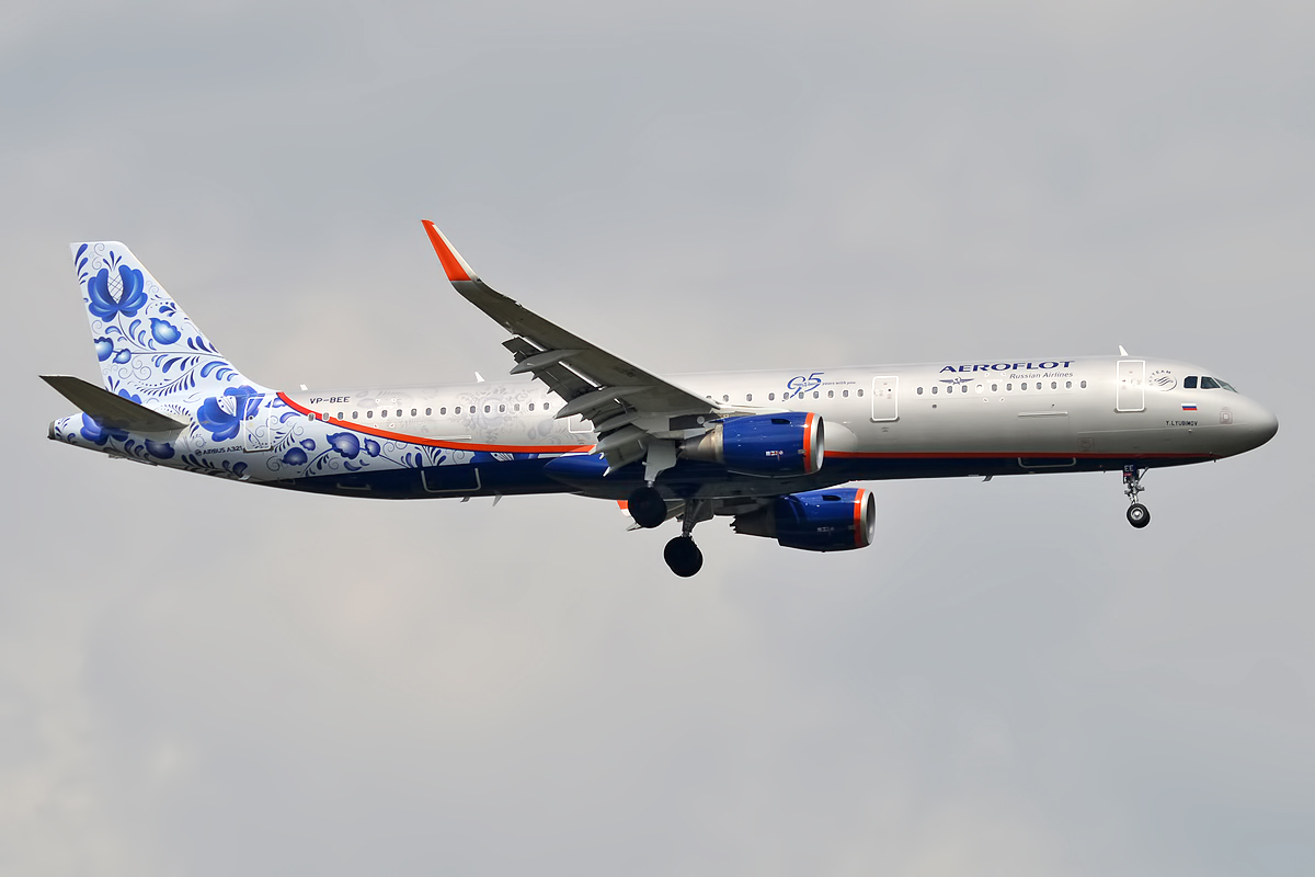 Aeroflot (95 Years Livery), VP-BEE, Airbus A321-211